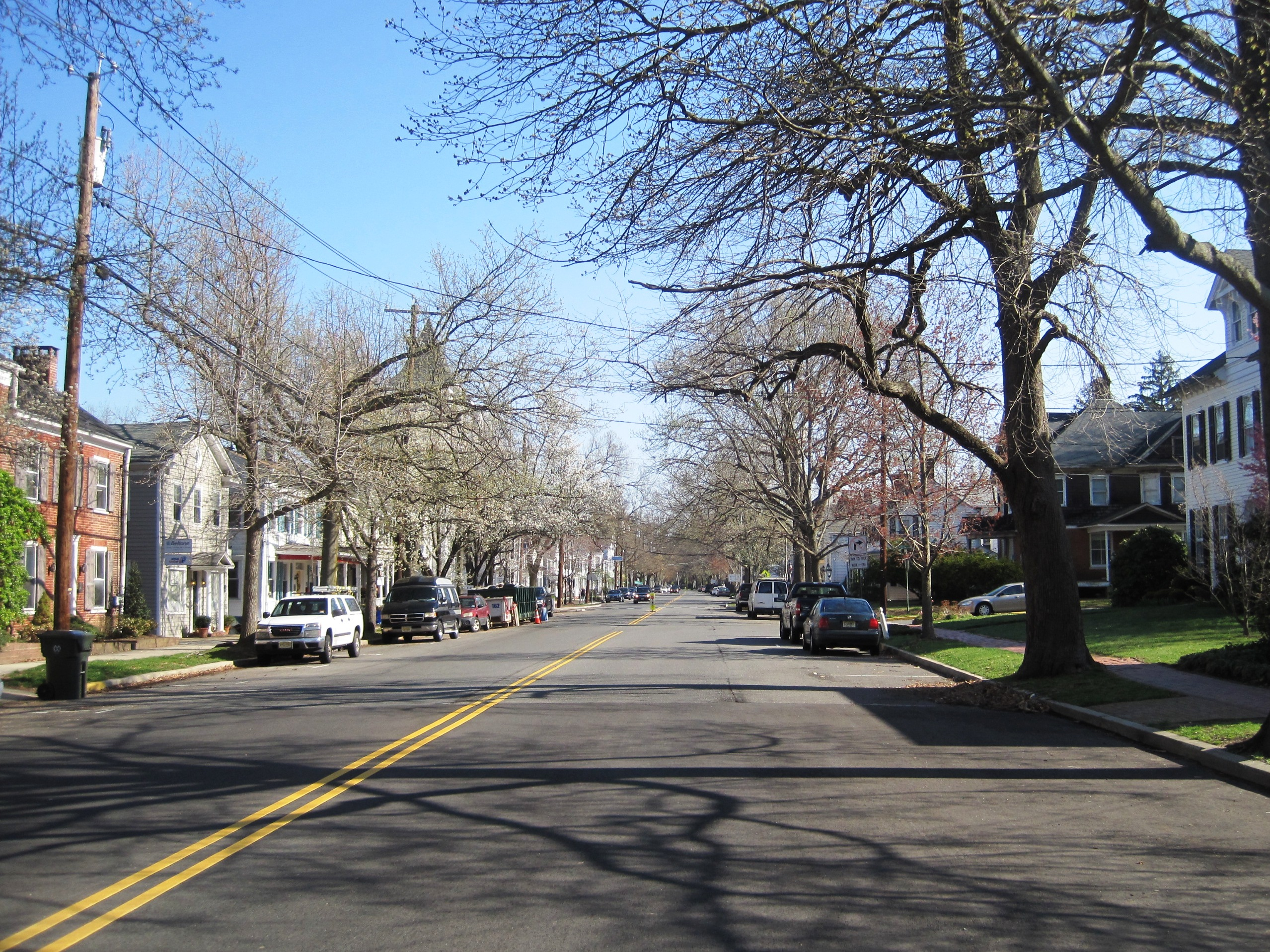 Photo of the central business district of Cranbury, New Jersey (township and census designated place. Photo taken on northbound Main Street (County Route 535).